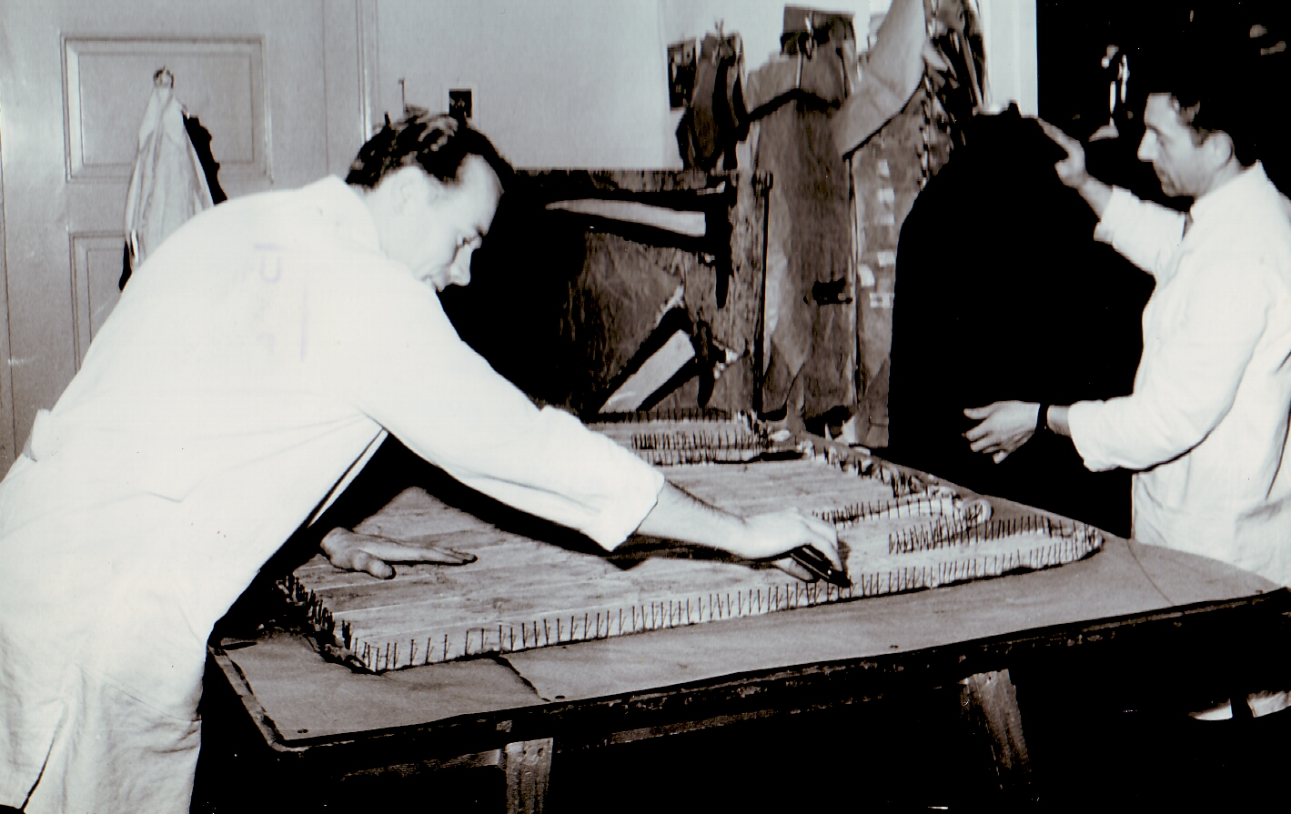 Furrier's shop Pelze Hugendick in Schwelm/Westfalia, Germany